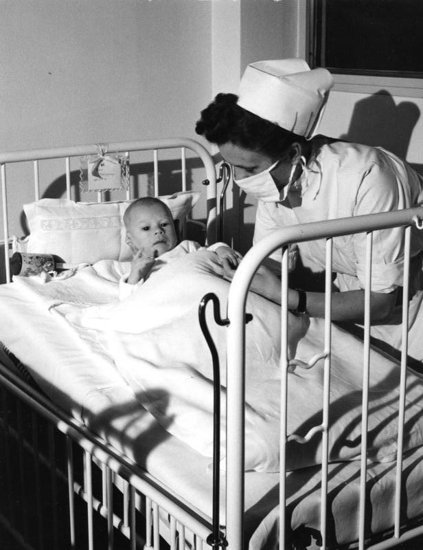 Universitäts-Kinderklinik, Bonn Information added by Wikimedia users.A nurse at the University Children's Hospital, Bonn, attending to an infant's bed and wearing mouth protection